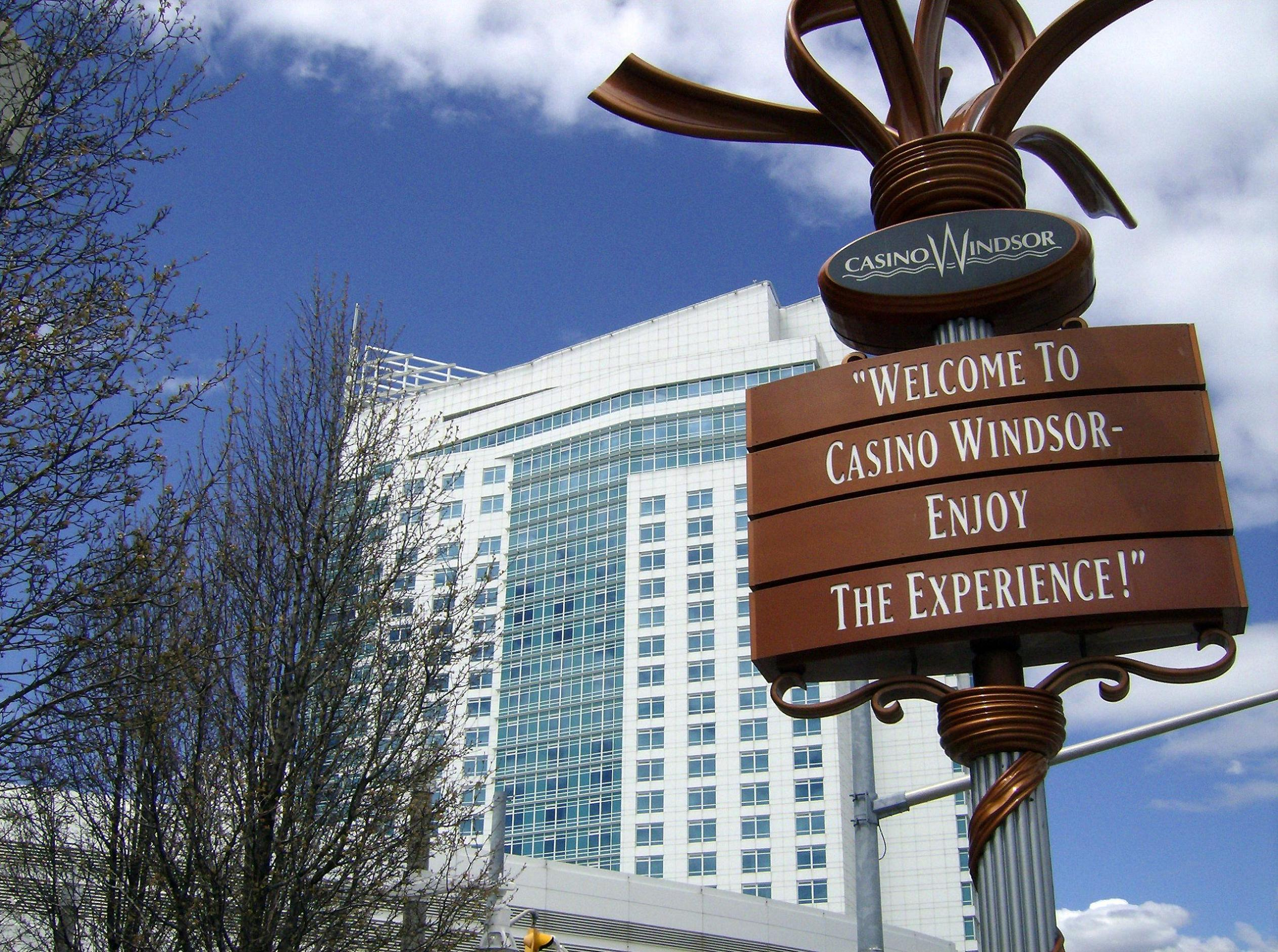 self made Category:Images of Windsor, Ontario